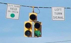 Left turn signal head (deployed in Dallas phasing).